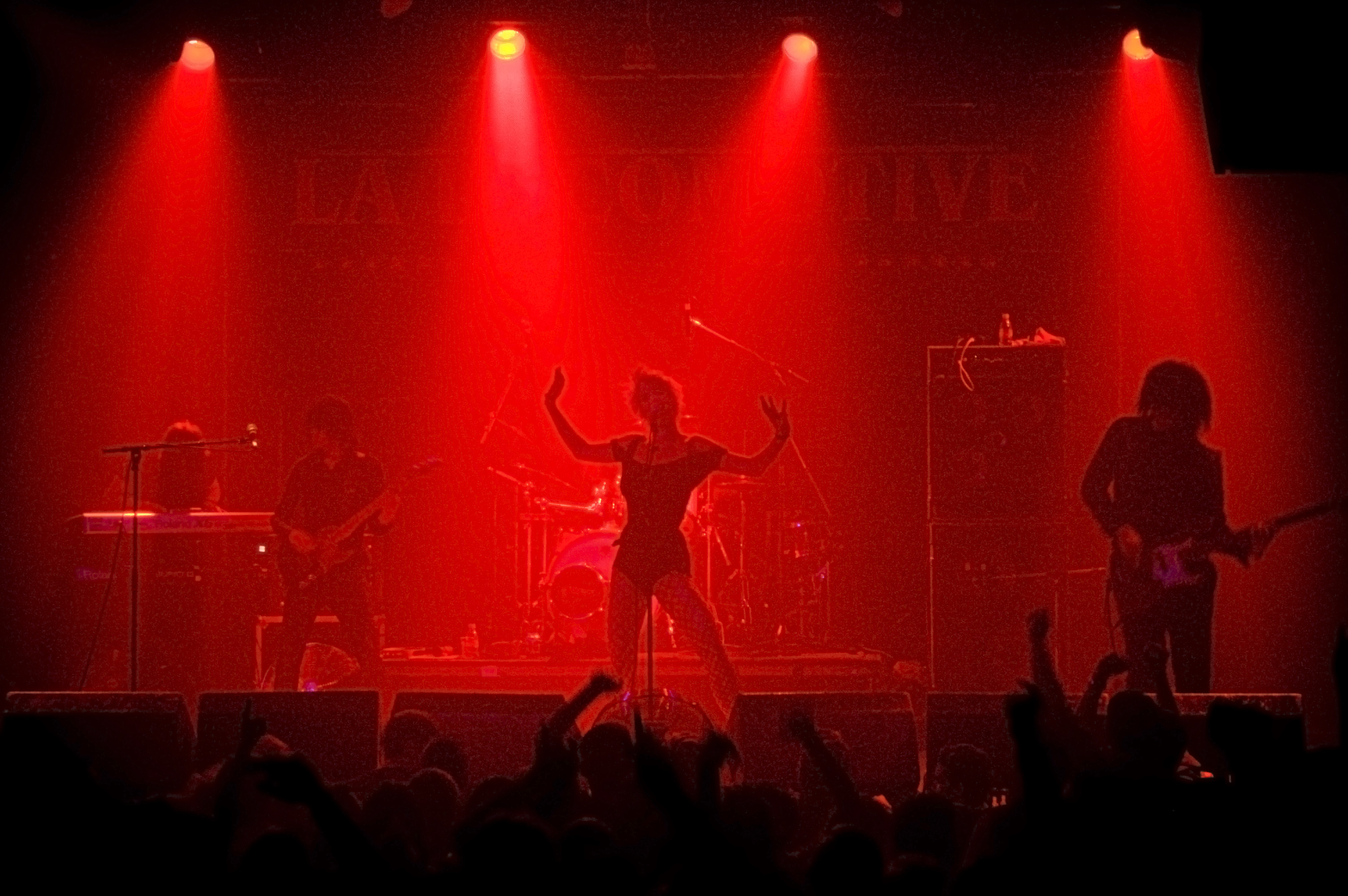 Vive la Fête live at La Loco (Paris, France).